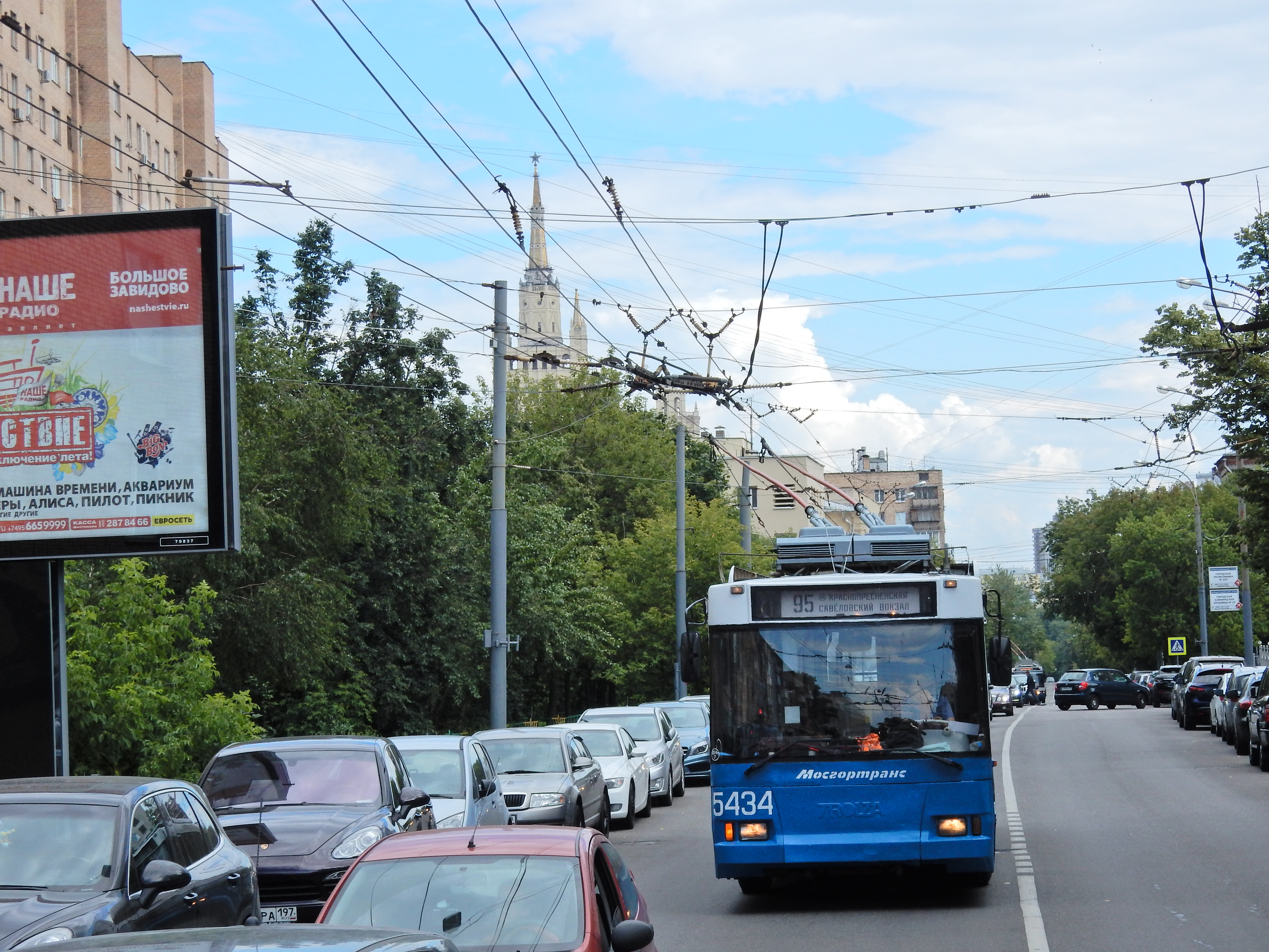 Moscow, Zamorenova Street.